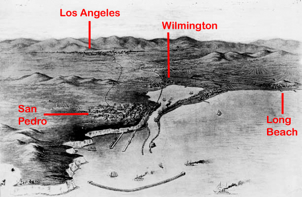 The plan for the the Los Angeles Harbor (later the Port of Los Angeles), 1900. I have marked the towns on the map (some of which are now neighborhoods within Los Angeles)